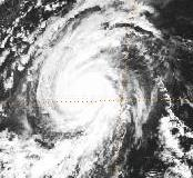 Hurricane Odile near peak strength on 1990-09-26